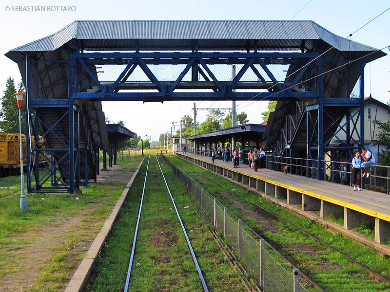 Alejandro Korn Train Station